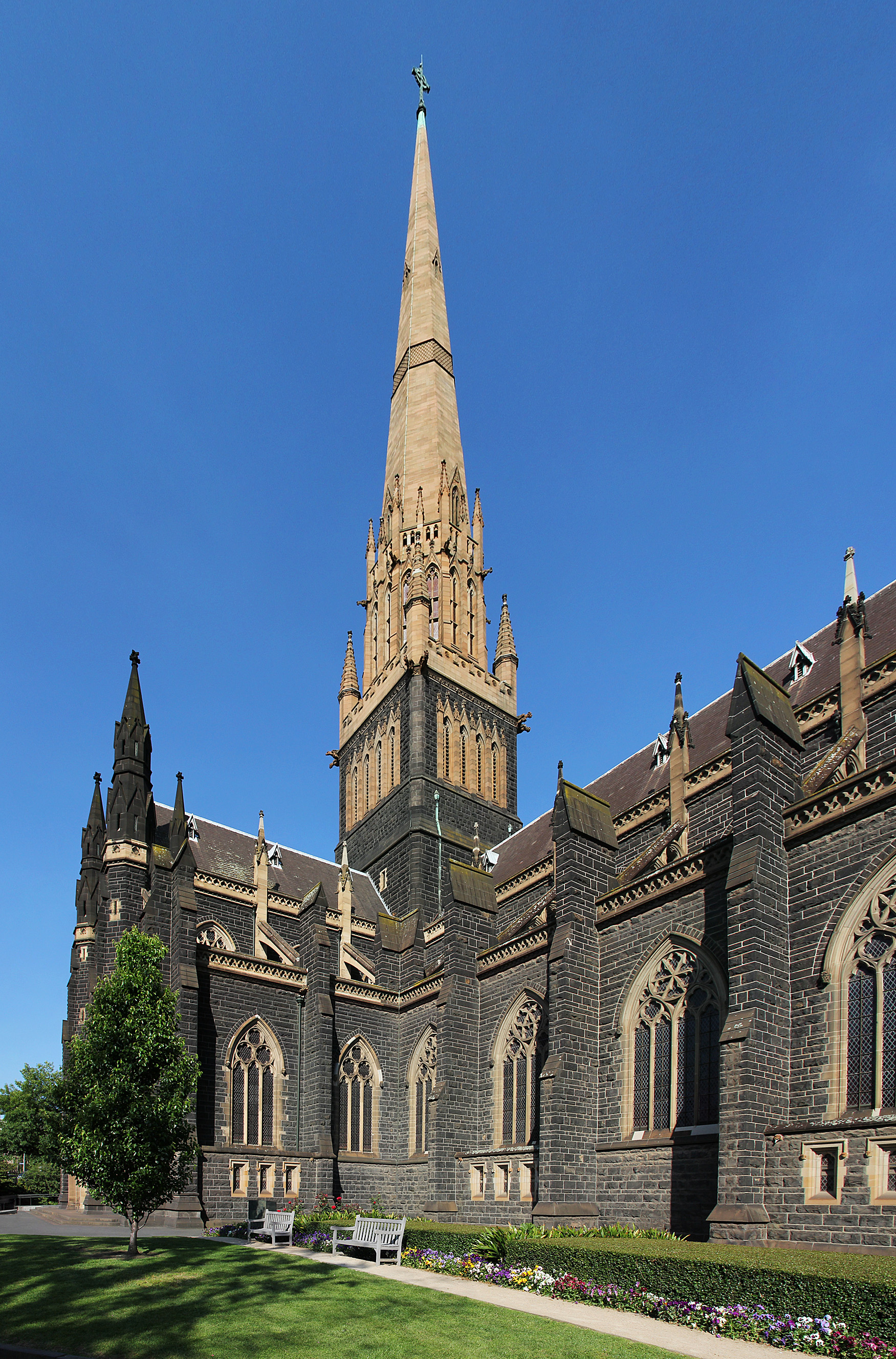 St Patrick's Cathedral Gothic Revival Style Central Tower, Melbourne